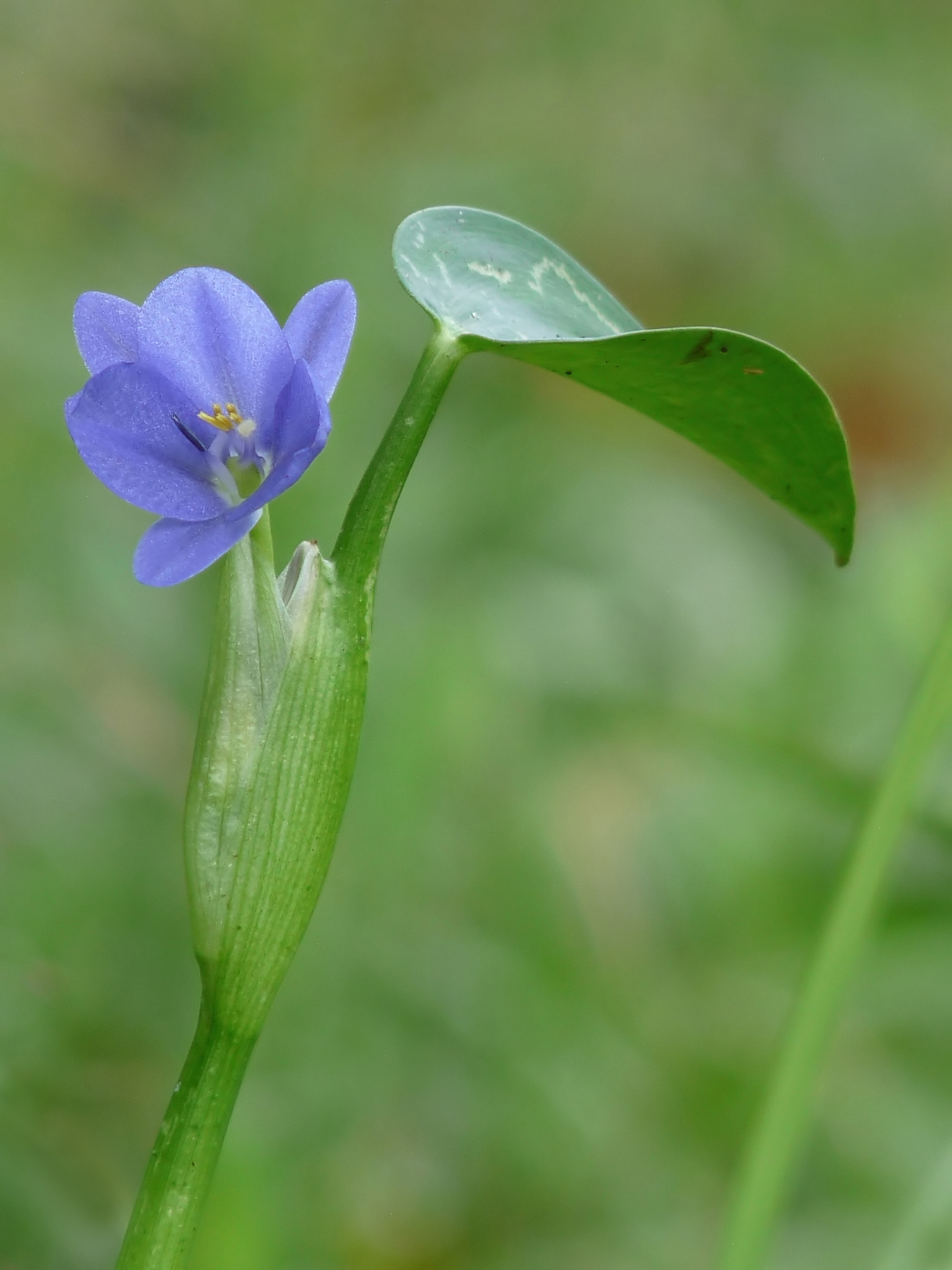 Monochoria vaginalis is a species of flowering plant in the Water hyacinth family known by several common names, including Heartleaf false pickerelweed and Oval-leafed pondweed. It is native to much of Asia and across many of the Pacific Islands, and it is known in other areas as an introduced species and often an invasive noxious weed. An aquatic plant, it is invasive in rice paddies and other water bodies. This is an annual or perennial herb growing in water from a small rhizome. It is quite variable in morphology. The shiny green leaves are up to about 12 centimeters long and 10 wide and are borne on rigid, hollow petioles. The inflorescence bears 3 to 25 flowers which open underwater and all around the same time. Each has six purple-blue tepals just over a centimeter long. The fruit is a capsule about a centimeter long which contains many tiny winged seeds.